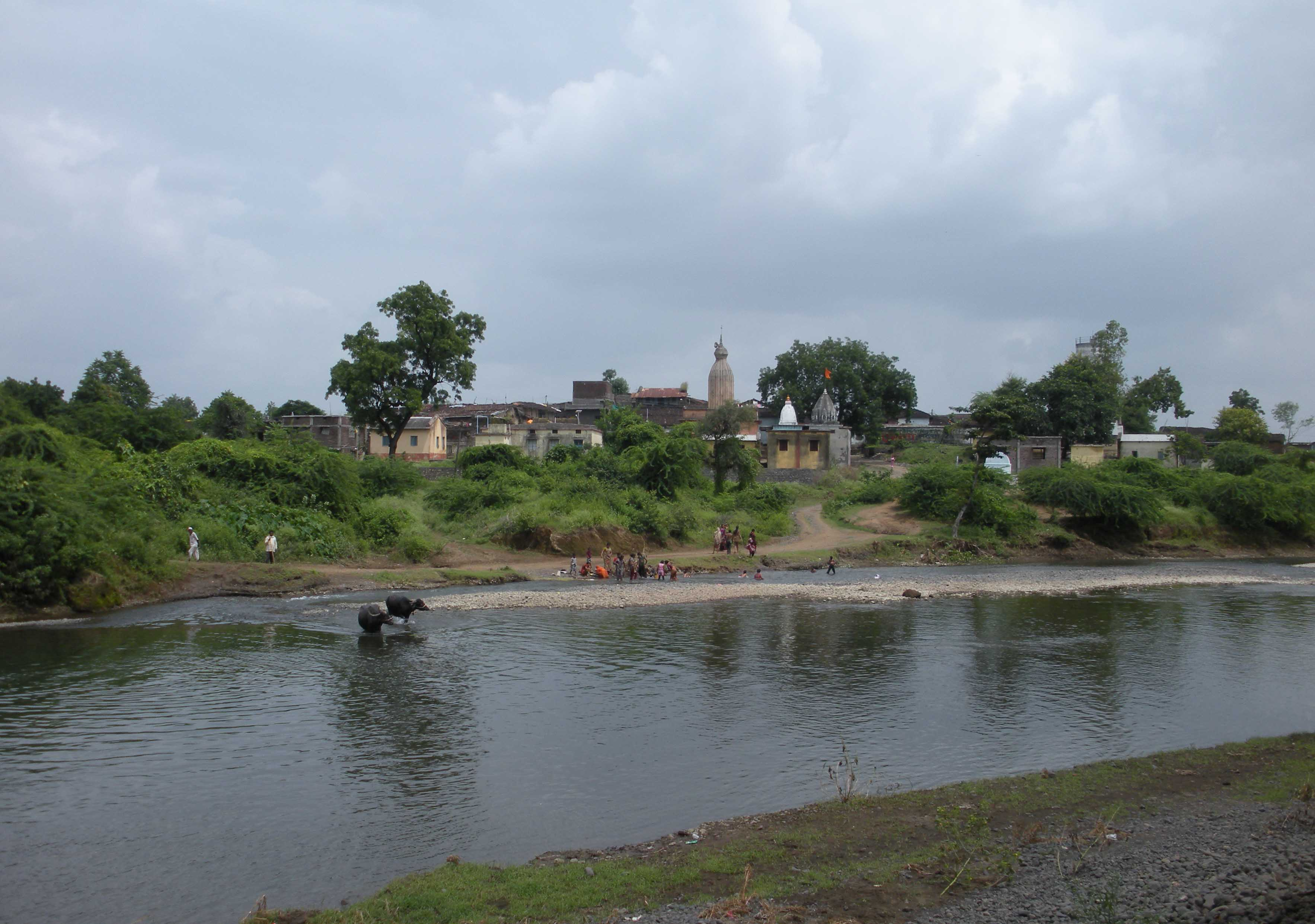 View of the village of Chamak Khurd, Maharashtra, India. The river shown here is Chandrabhaga, tributary of river Purna.